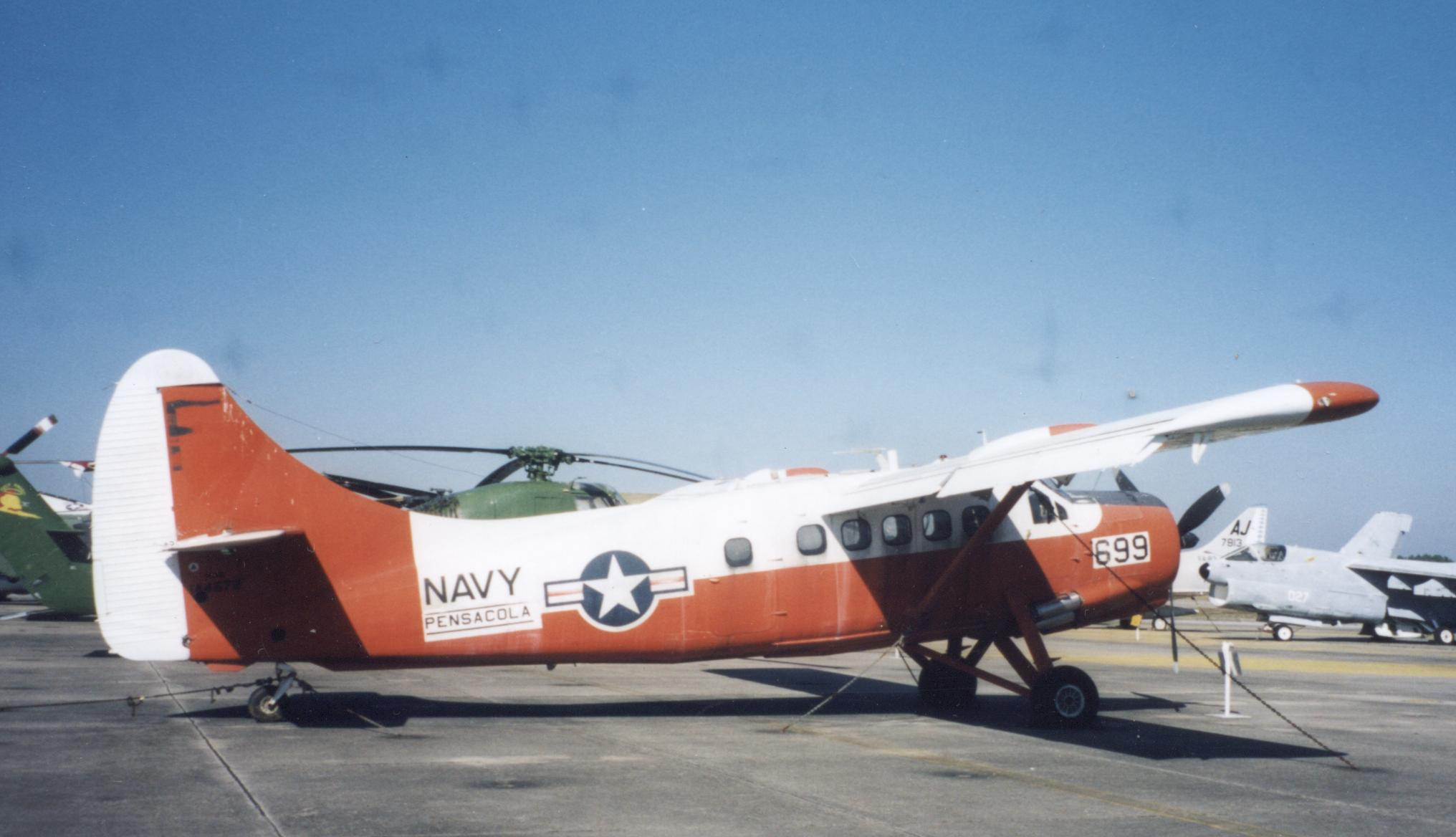 De Havilland U-1B (DHC-3) Otter of U.S. Navy at NAS Pensacola